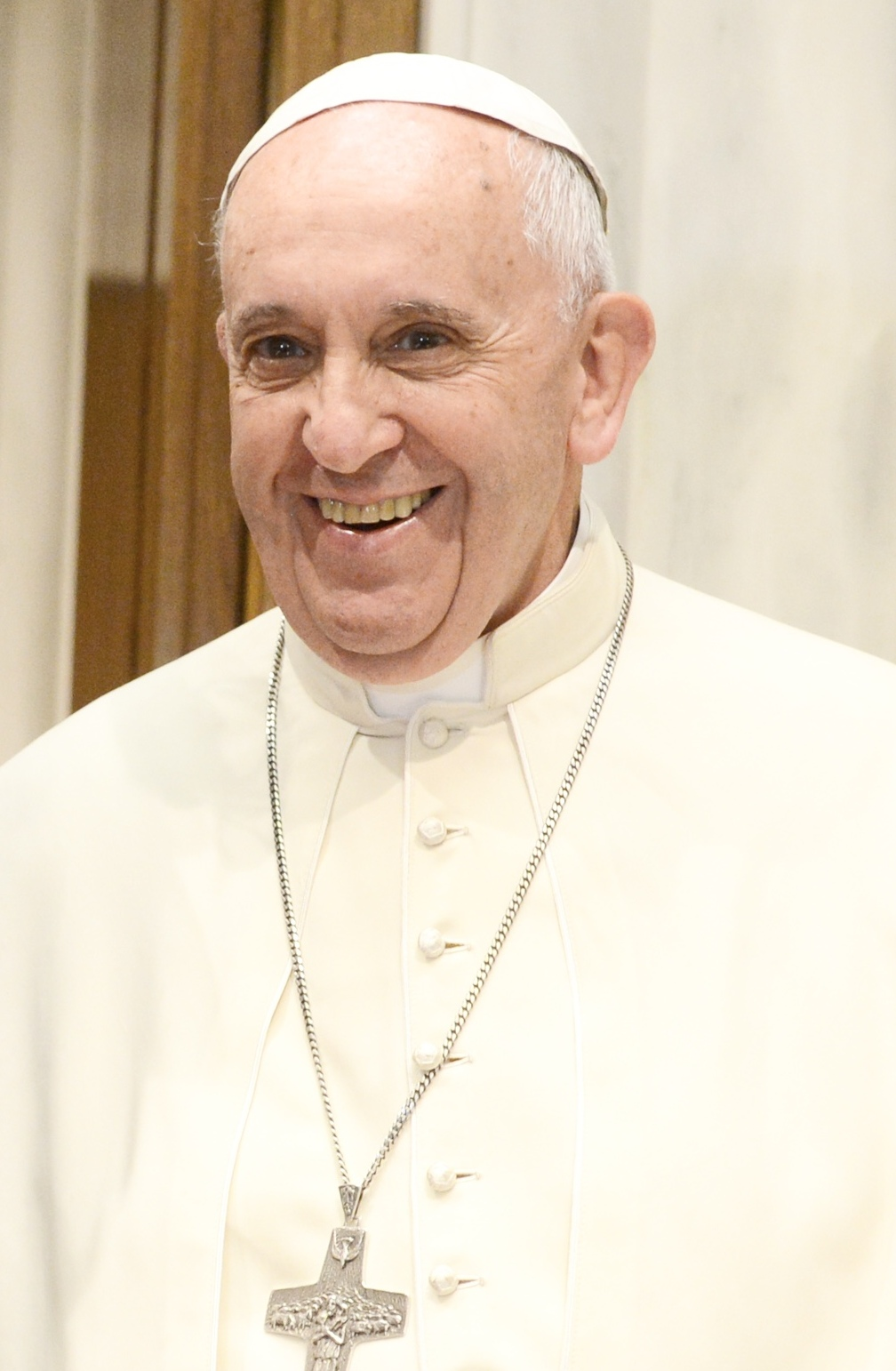 Pope Francis in a meeting with President Christina Fernandez de Kirchner of Argentina in the Casa Rosada.